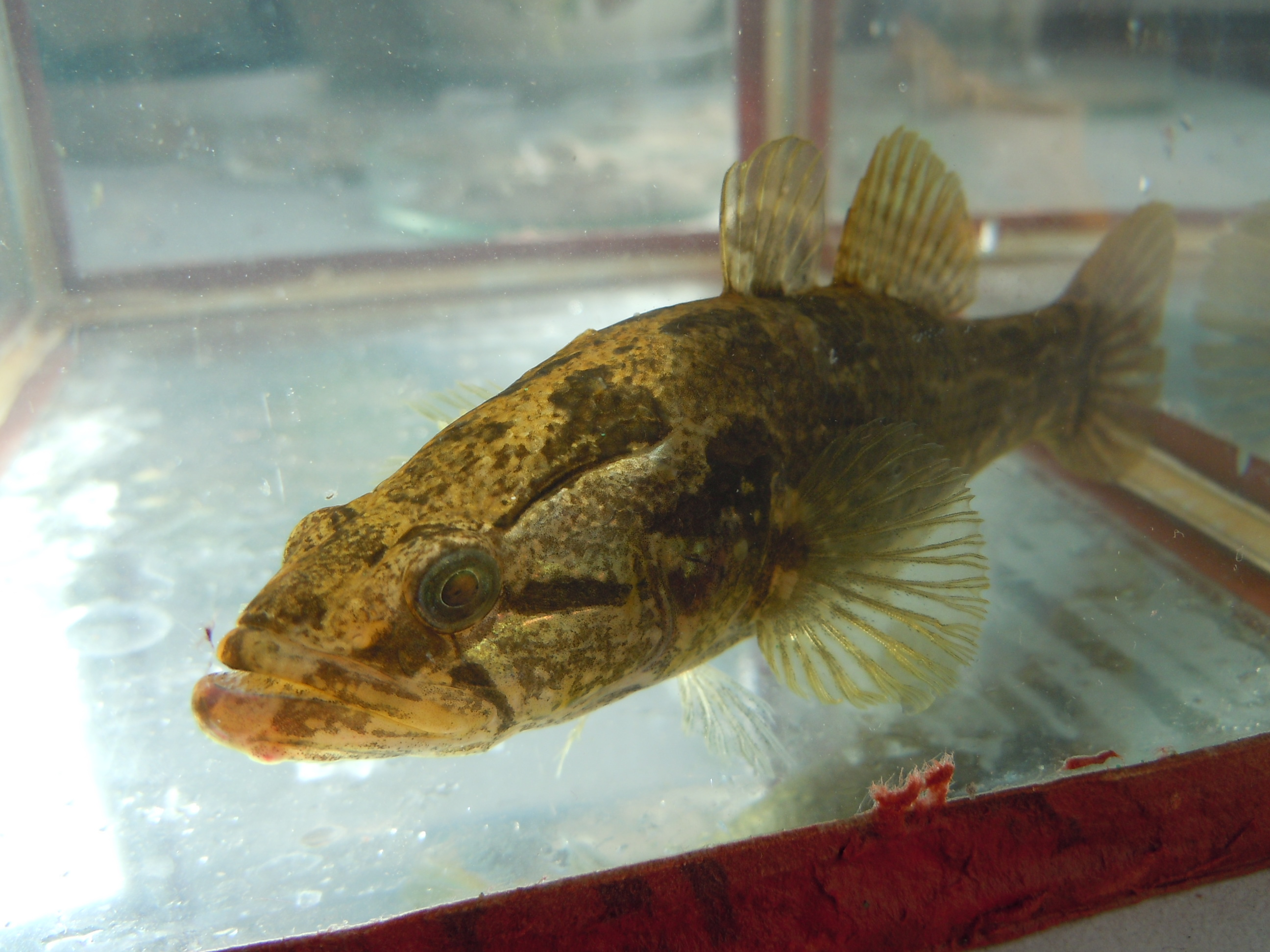 Chinese sleeper (Perccottus glenii) from the Danube Delta in Vylkove, South-Western Ukraine